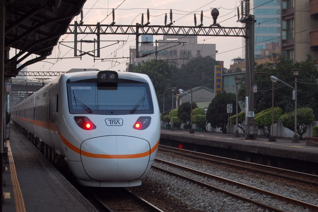 TRA purchased six sets of Hitachi 8-car 130 km/h tilting trains, based on JR Kyushu’s 885- series design, for US$85 million, to provide accelerated East Coast services. Locally called “Taroko trains” after the mountain gorge